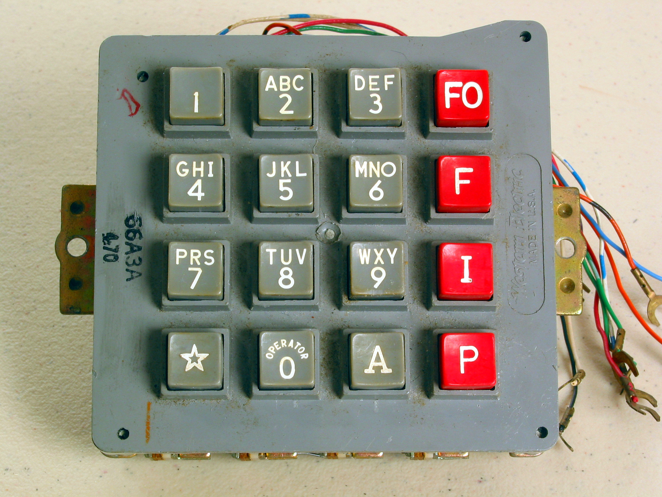 Picture of Western Electric model 66A3A DTMF ("Touch Tone") keypad showing additional feature buttons for the Autovon system marked 'FO' 'F' 'I' and 'P'